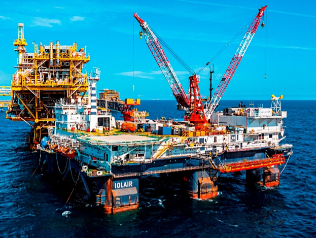 Iolair in the Gulf of Mexico 2017